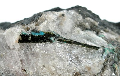 Chloroxiphite, Diaboleite, Mendipite Locality: Higher Pitts Mine, Priddy, Somerset, England, UK (Locality at ) Size: miniature, 4.7 x 2.8 x 1.9 cm Chloroxiphite with Diaboleite in Mendipite This is an important species and locality specimen, featuring a 1.5 cm crystal of Chloroxiphite in Mendipite,with minor blue Diaboleite in association. Its worth something for the Mendipite alone! The chloroxiphite is particularly displayable as well as large. From the miniature rarities suite of Lawrence Conklin, who exchanged it from the American Museum of Natural History. Year of Discovery: 1923 at this , the type locality .